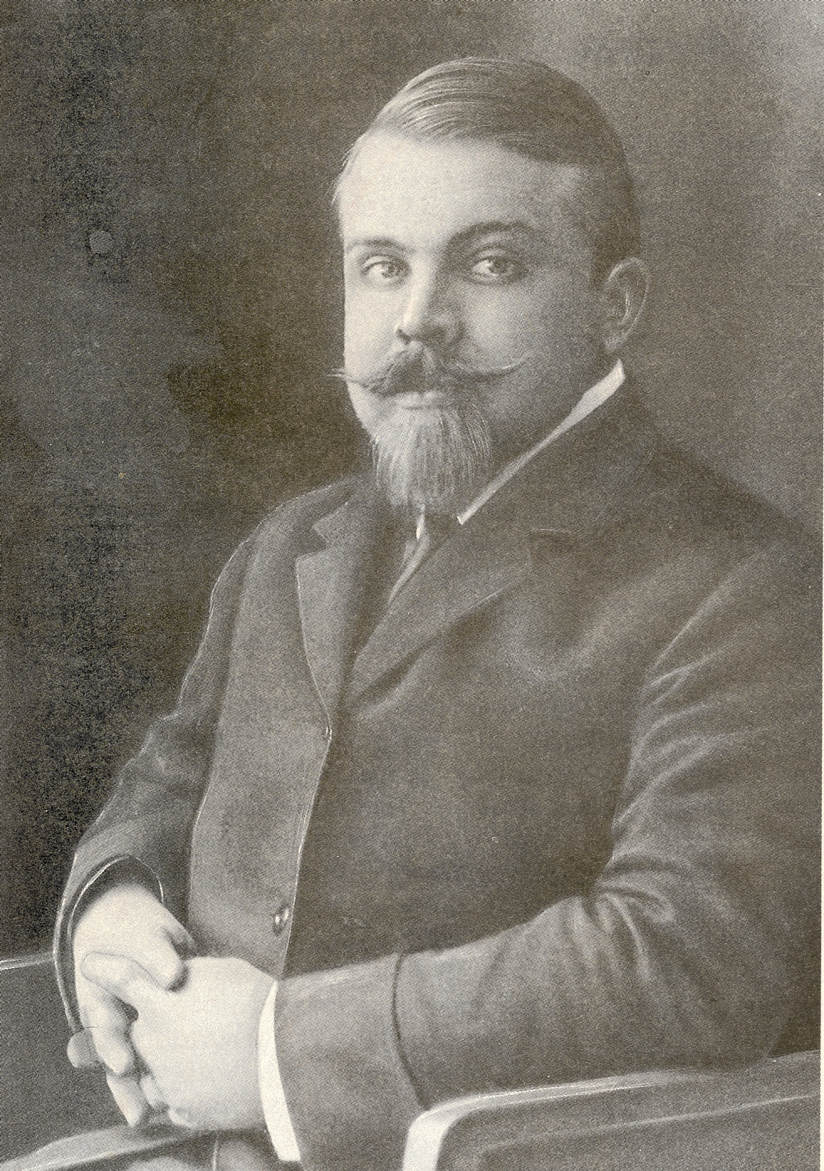 Adam Bochenek, Polish anatomist